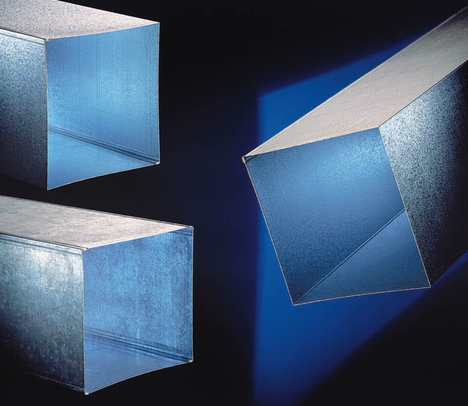 Rectangular air ducts with seamed joints